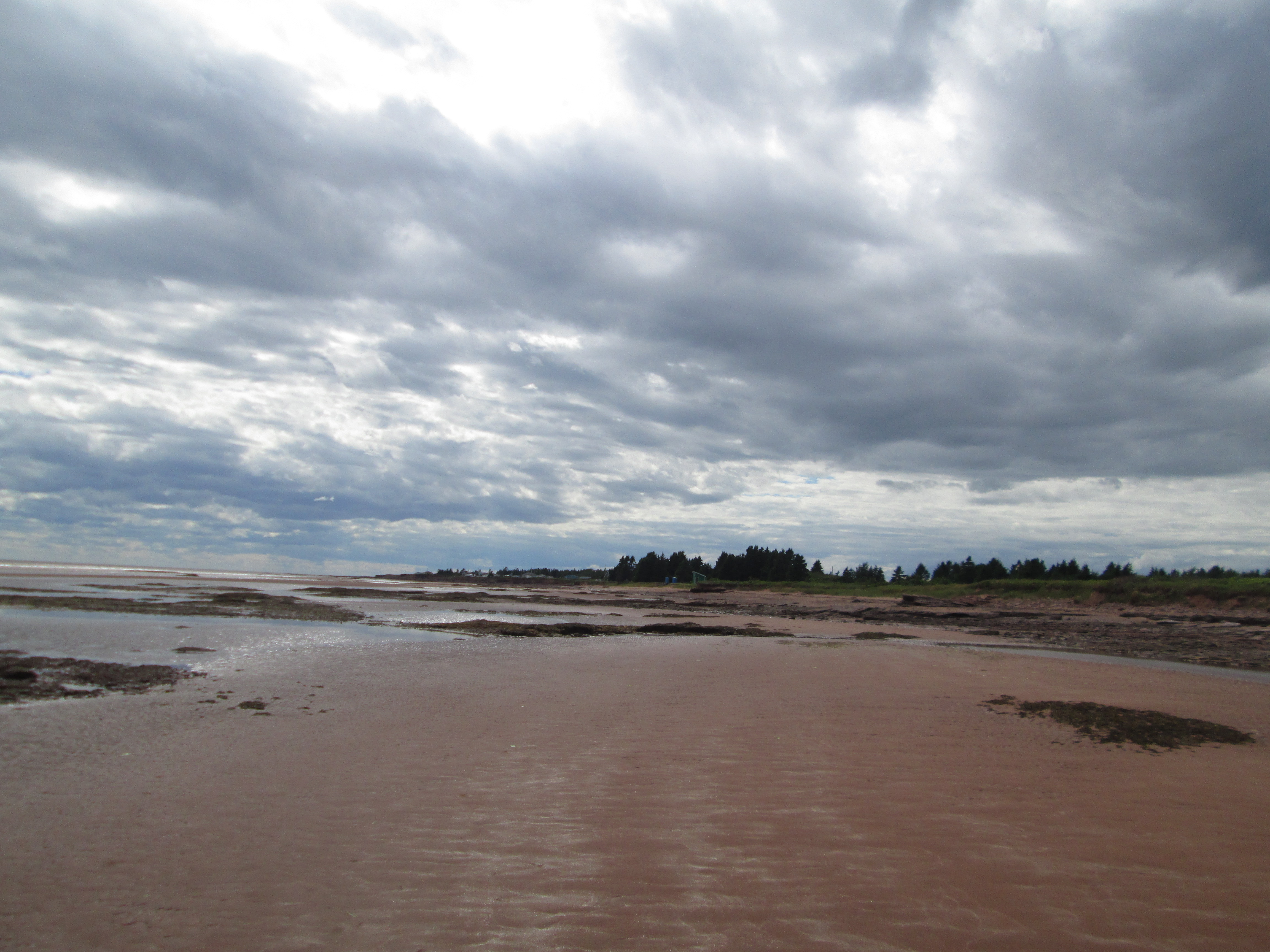 July 3, 2016